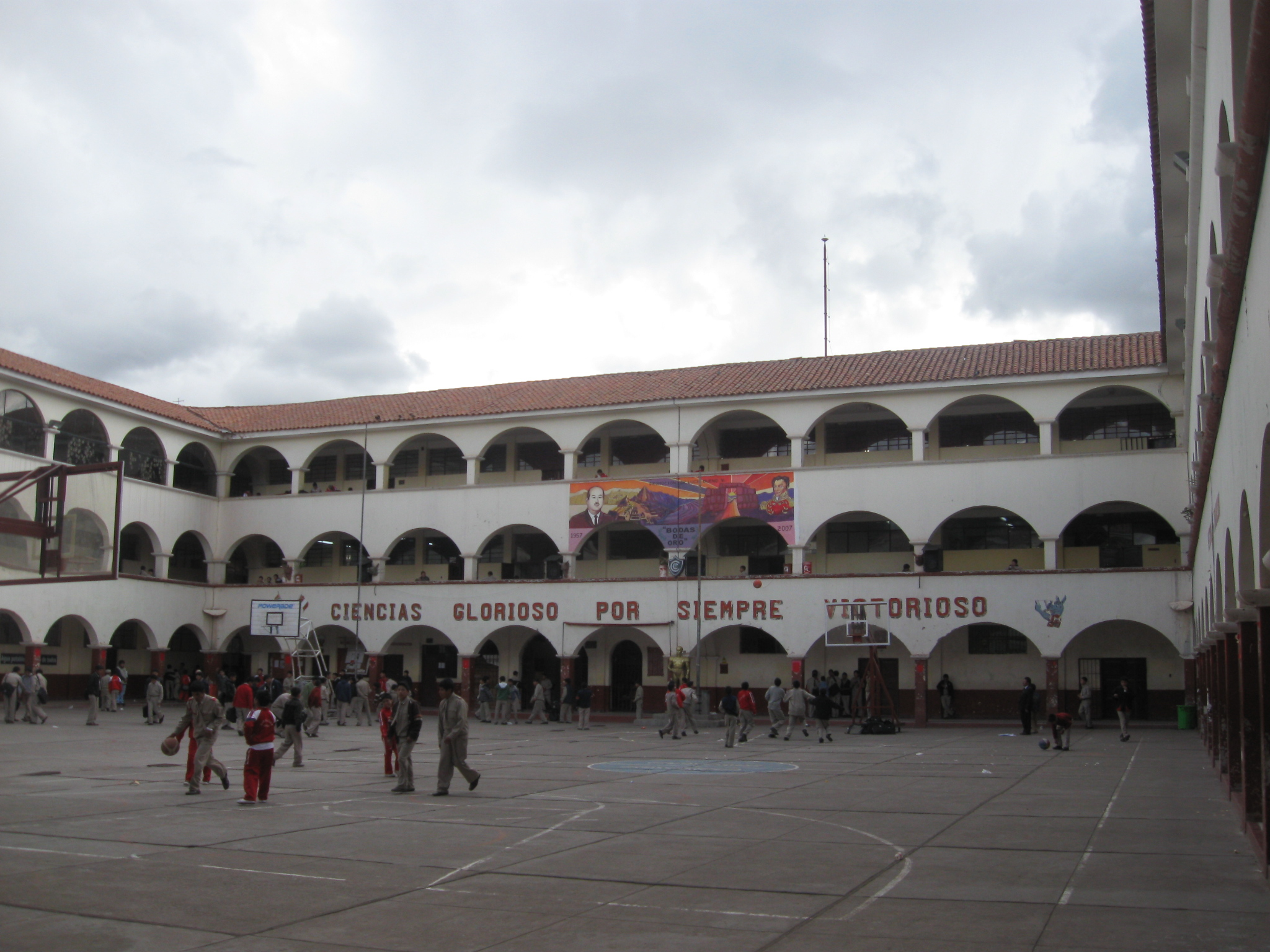 noviembre 2010